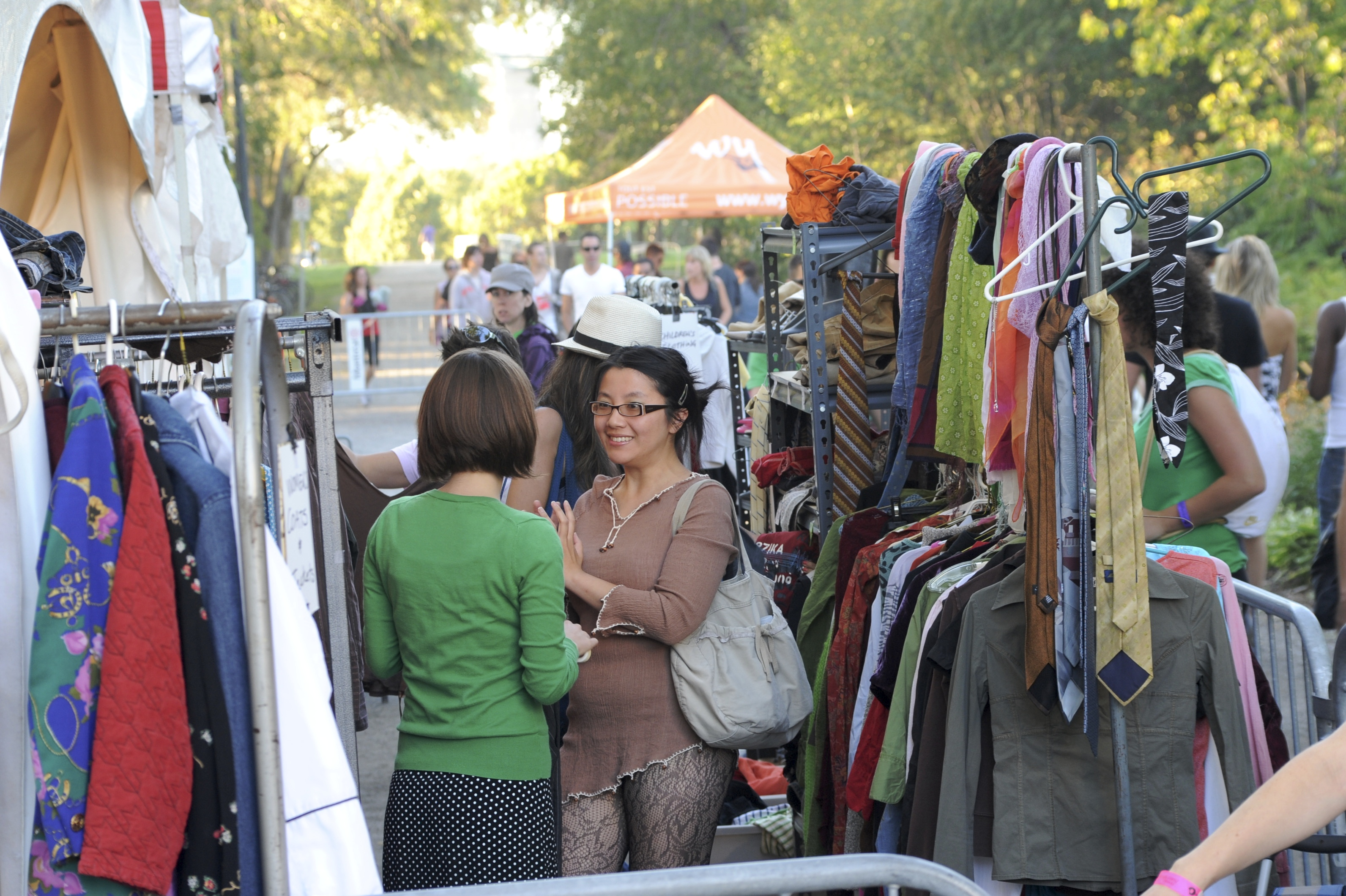 Typical scene at a "Take Off Your Clothes" clothing swap. This one was held at Montreal's Piknic Electronik in September 2009.